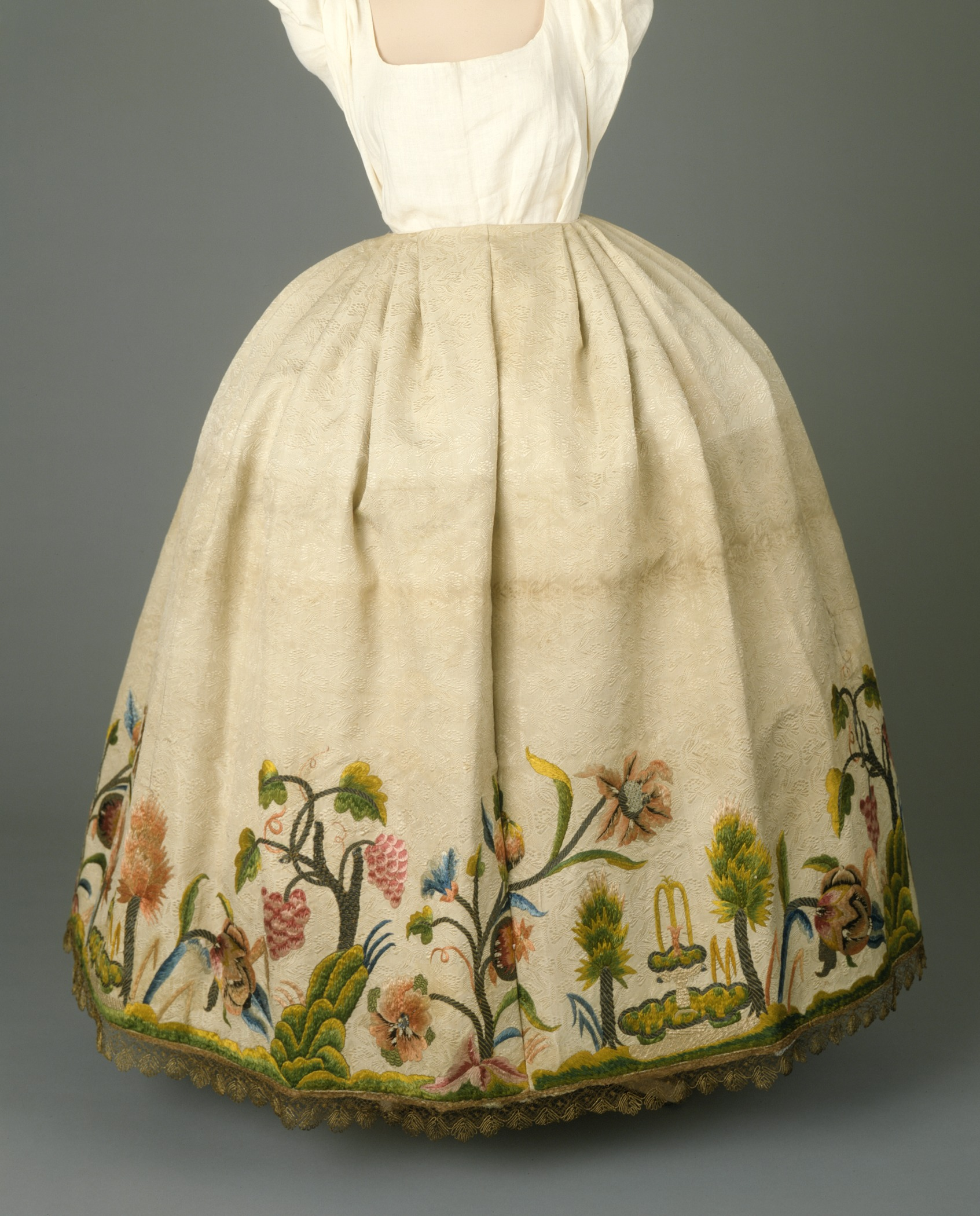 Portugal, circa 1760 Costumes; underwear (lower body) Silk and metallic thread embroidery on silk; metallic bobbin lace (orris) Costume Council Fund (M.63.55.3) Costume and Textiles